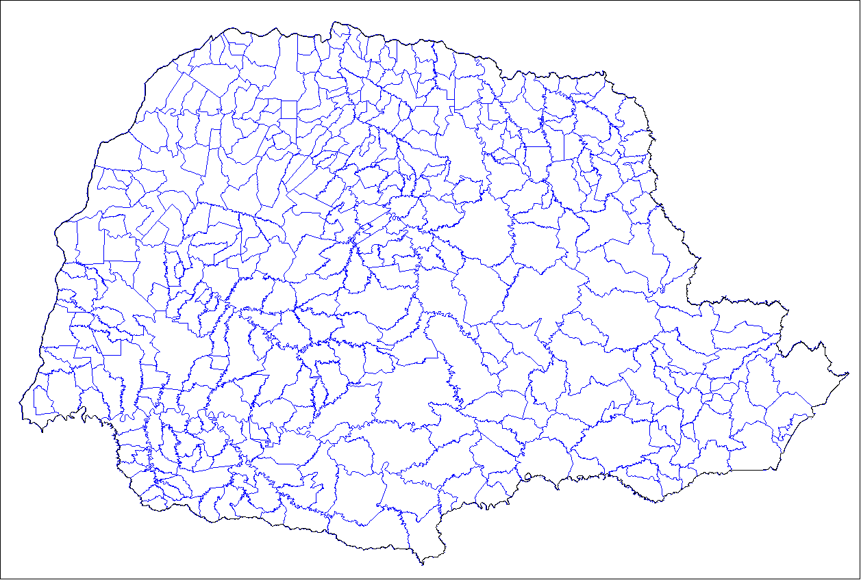 Map of the municipalities of the state of Parana, Brazil. Created by Rarelibra 22:08, 24 August 2006 (UTC) for public domain use. Created using MapInfo Professional v8.5 and various mapping resources.